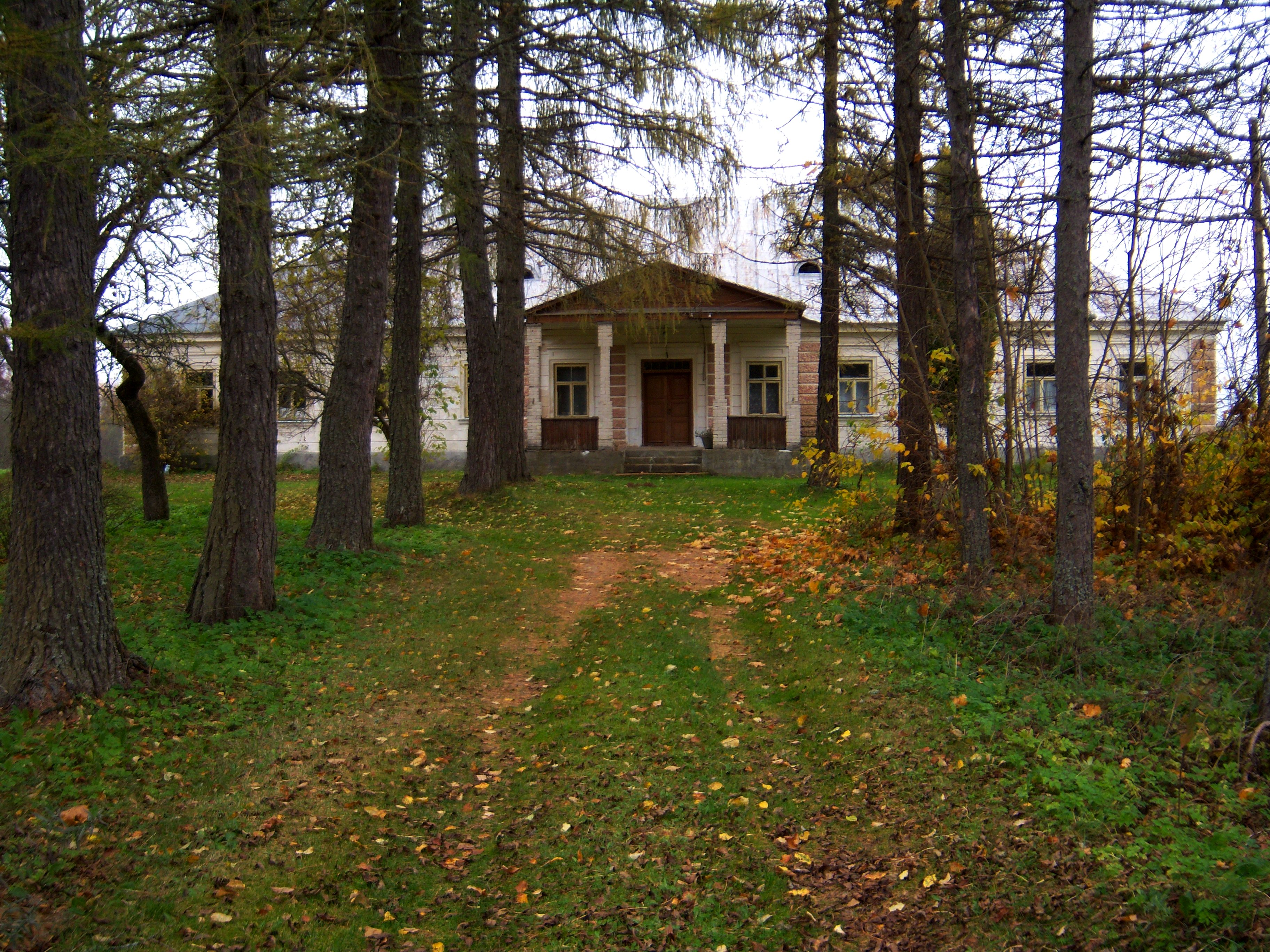 Former manor in Sedeikiai, Anykščiai District, Lithuania